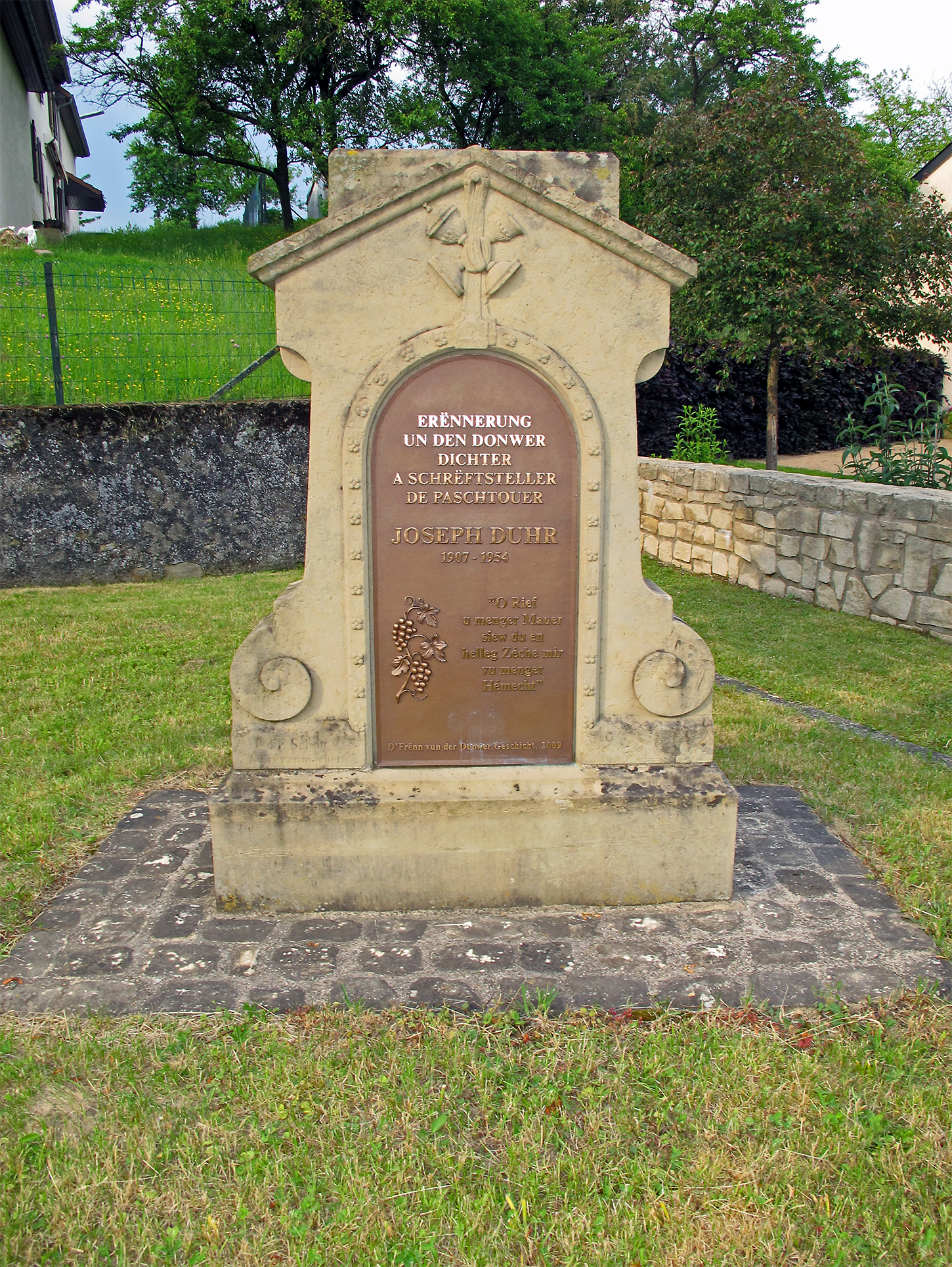 Memorial of Joseph Duhr in Niederdonven, Luxembourg